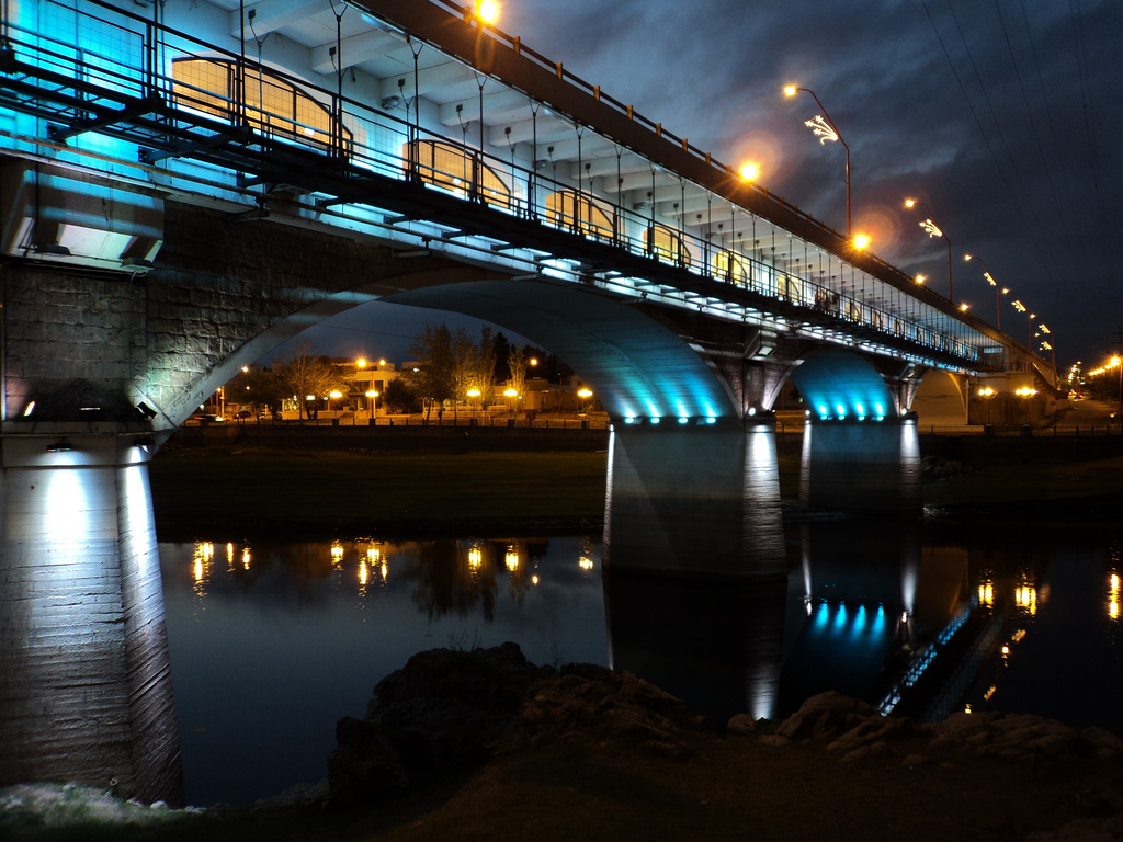 Uruguay Bridge, Villa Carlos Paz, Argentina. Built in 1945, it was renovated in 2010 with the addition of two lanes and a cultural center underneath.